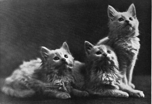 Three cats, photographed by American photographer Belle Johnson (1864–1945)